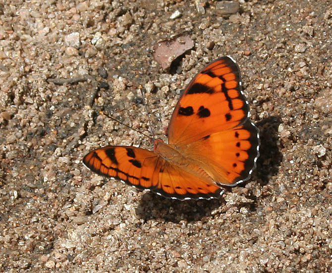 Baronet Euthalia nais in Narsapur, Andhra Pradesh, India.